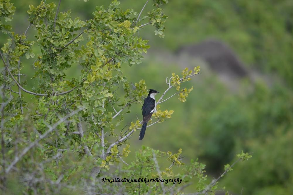 Pied cuckoo in Pune, Maharashtra